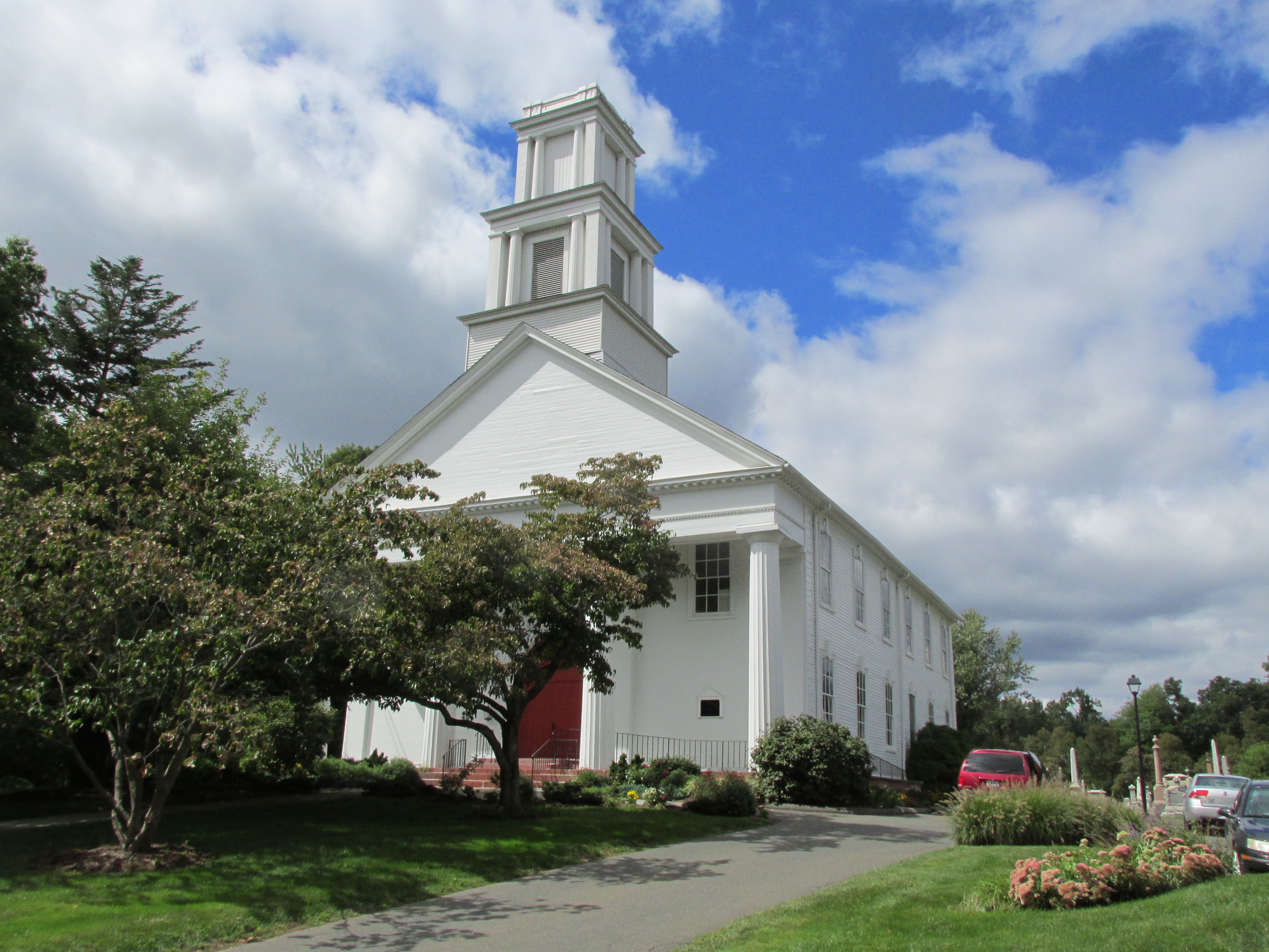 The First Church in Windsor in the Palisado Avenue Historic District, Windsor Connecticut